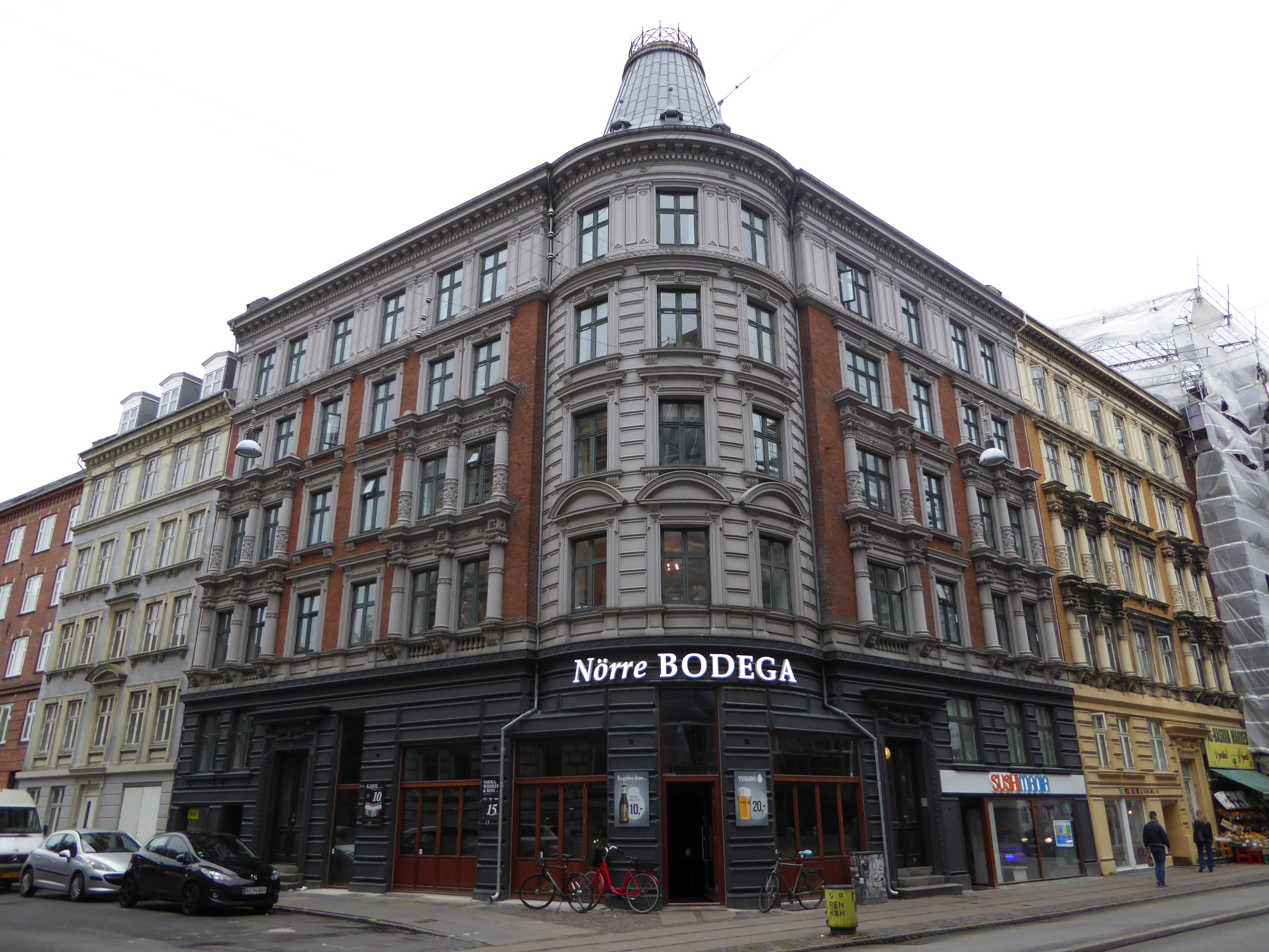 Apartment building at the corner of Uffesgade and Nørrebrogade in Nørrebro in Copenhagen.